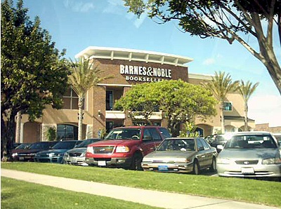 Barnes & Noble bookstore in Torrance, California, near Del Amo Fashion Center